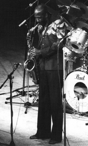 saxophonist Wilton Felder in Paris, France